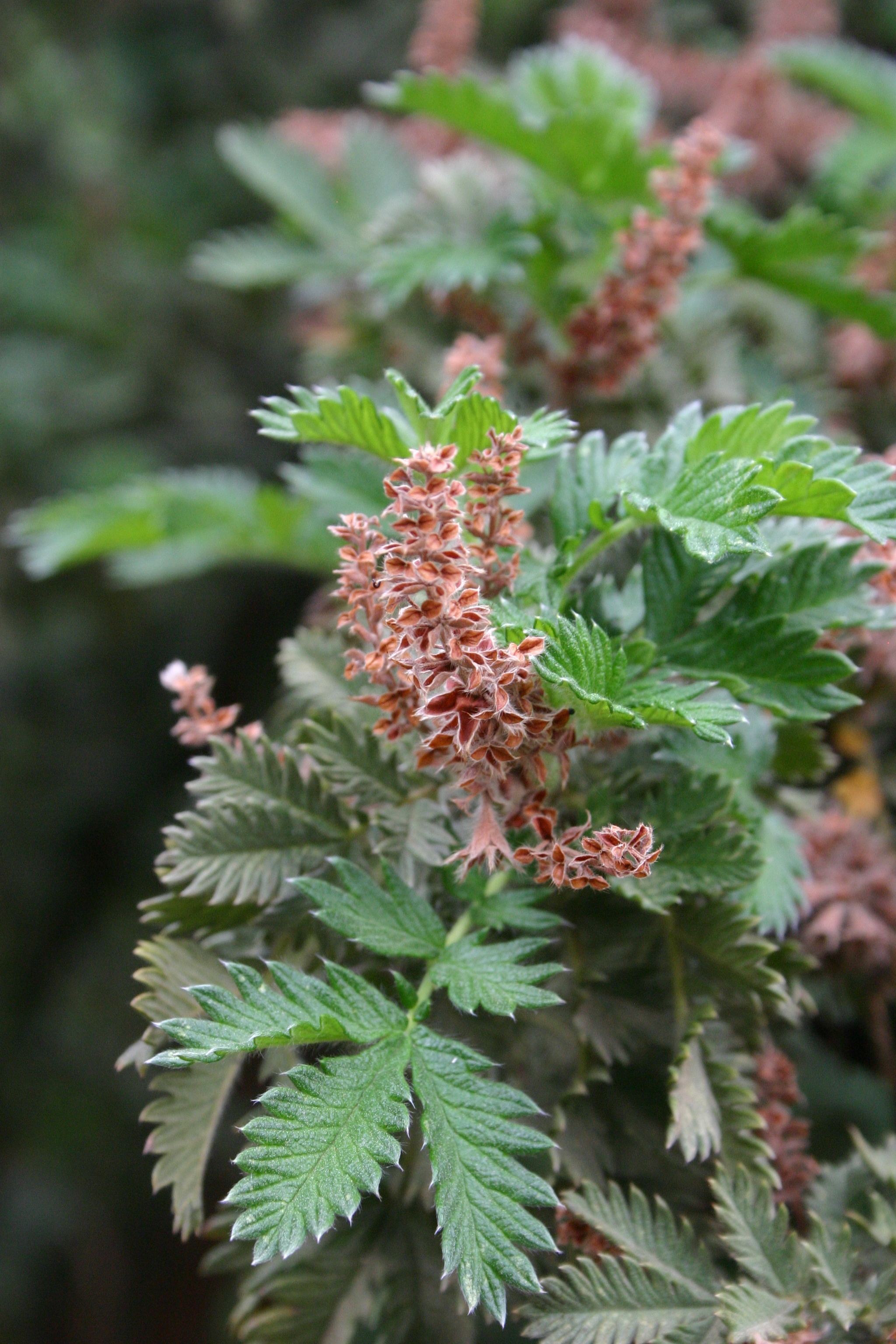 Leaves and flower bracts, Gauteng garden